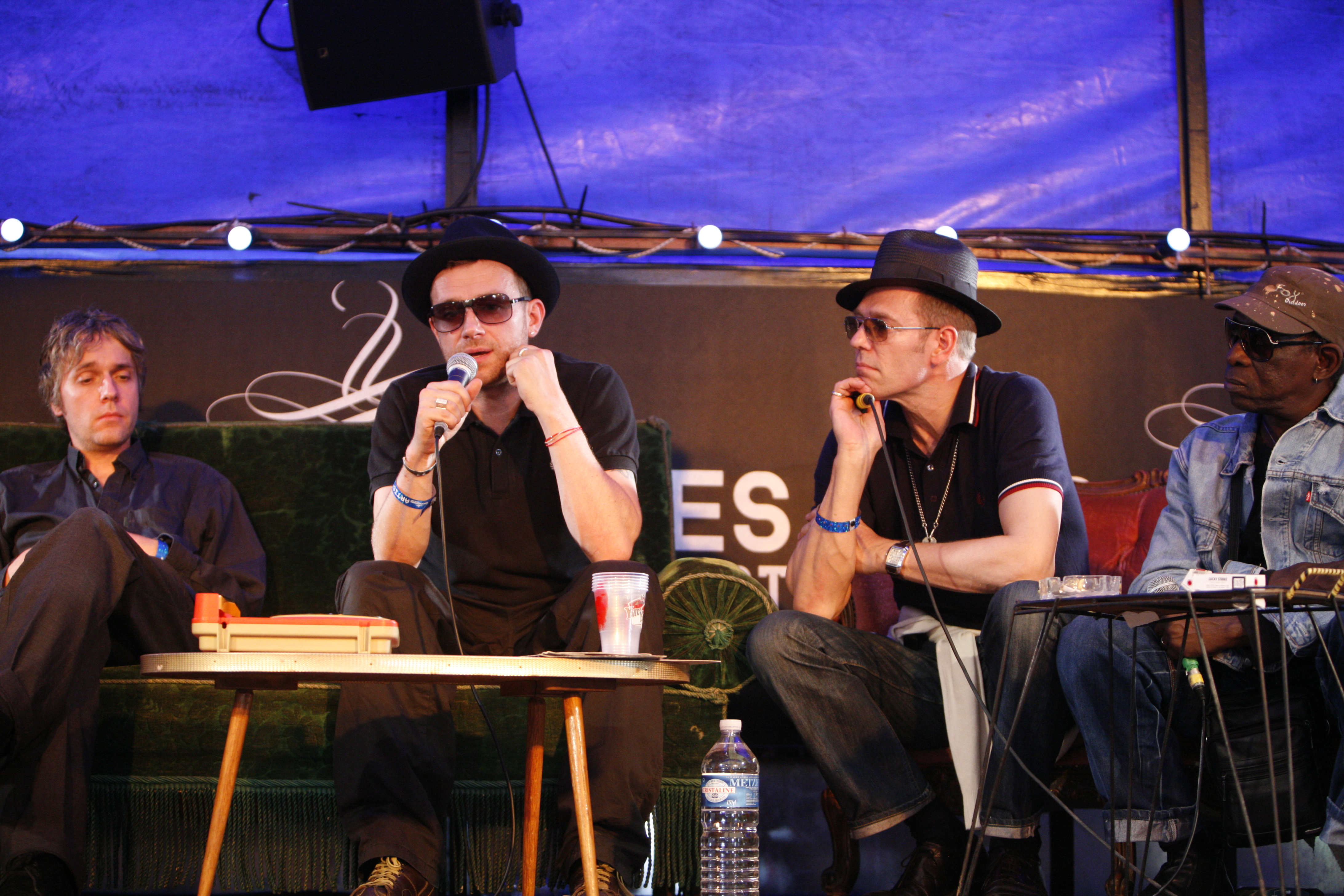 The Good, the Bad and the Queen at the Eurockéennes of 2007